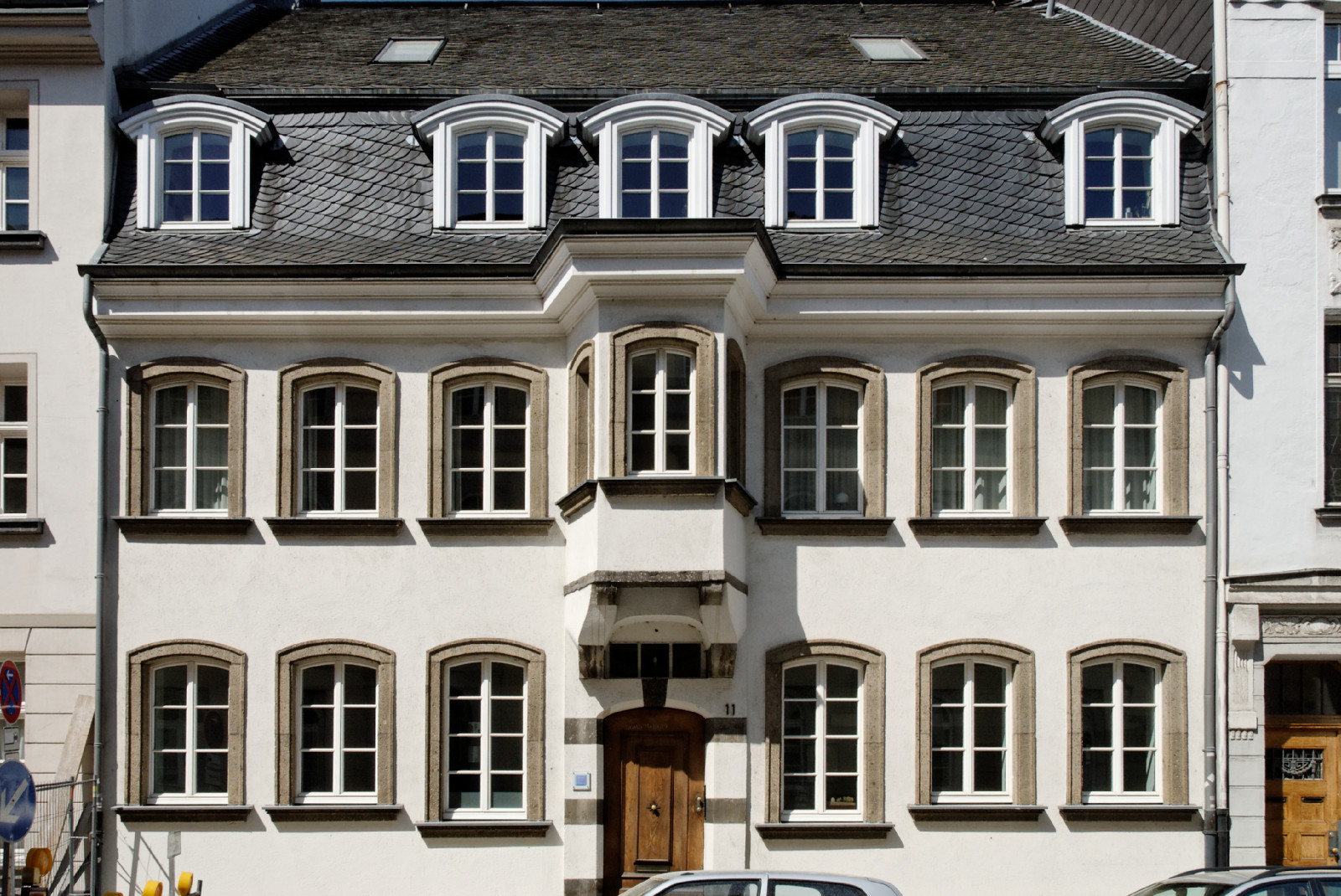 House Citadellstraße 11 in Düsseldorf-Carlstadt, Germany